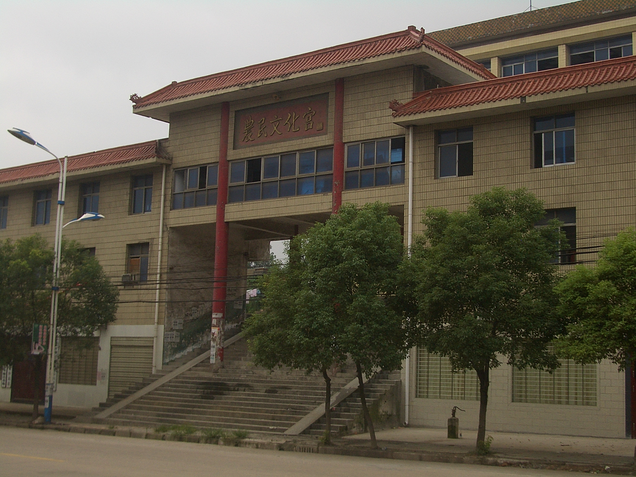 The Farmers' Palace of Culture (Nongmin Wenhua Gong) in Dajipu Zhen, Dayi Town, Huangshi CIty, Hubei.